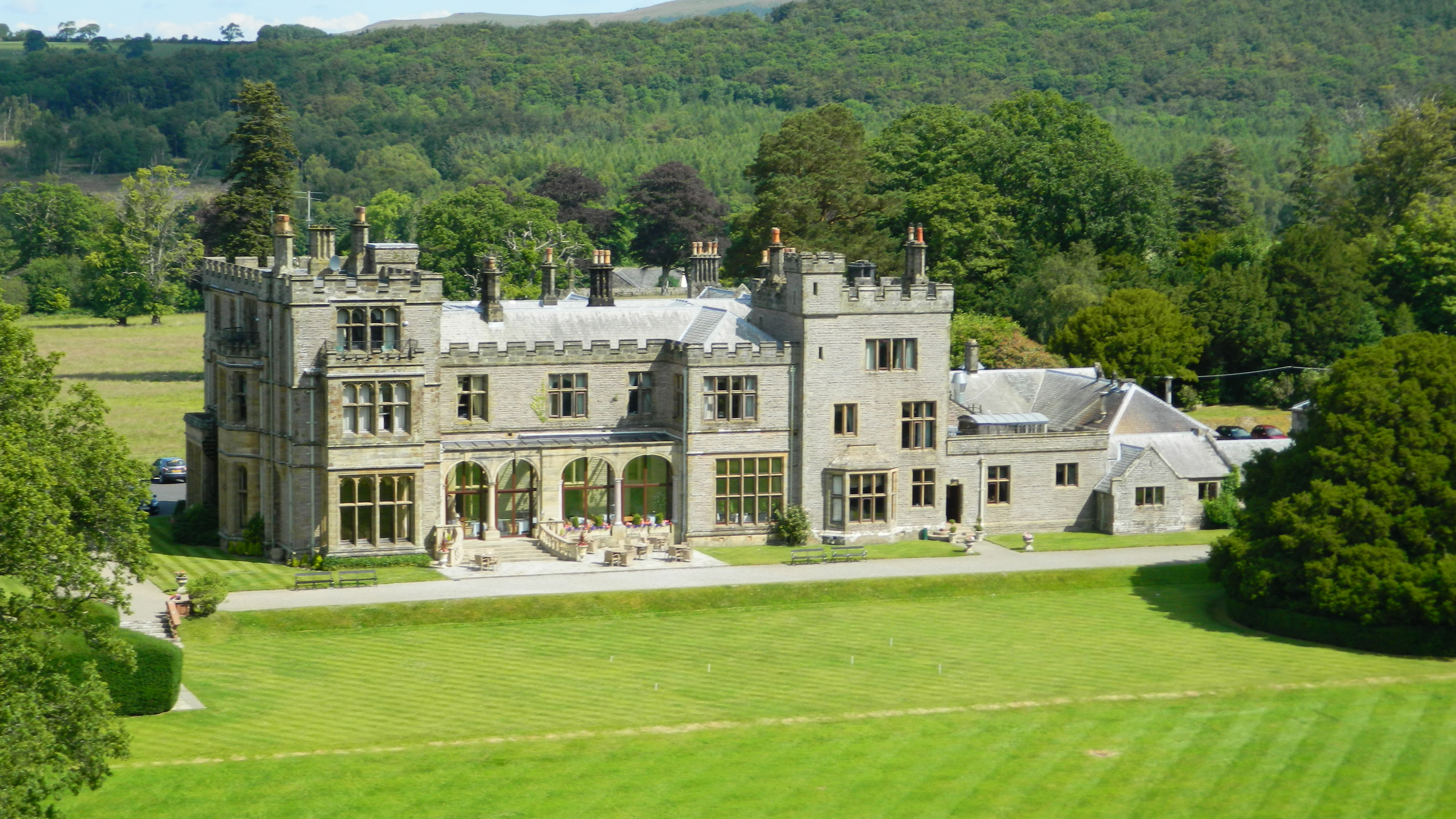 Armathwaite hall is a luxury hotel and spa in lake district. Well know for its luxury spa in the lake district and for its wedding venue.